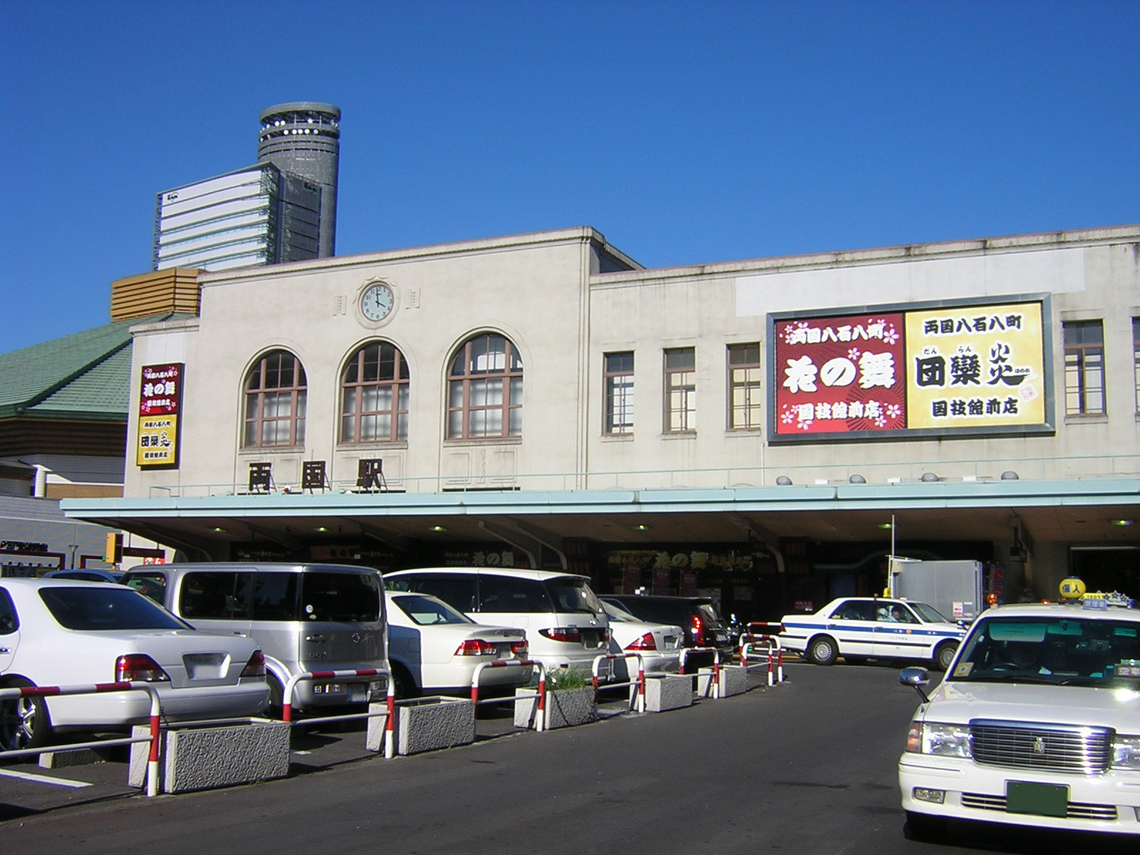 West exit of Ryōgoku Station